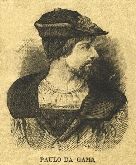 19th-century retrospective portrait of 15th-century Portuguese explorer Paulo da Gama, by Francisco Pastor.